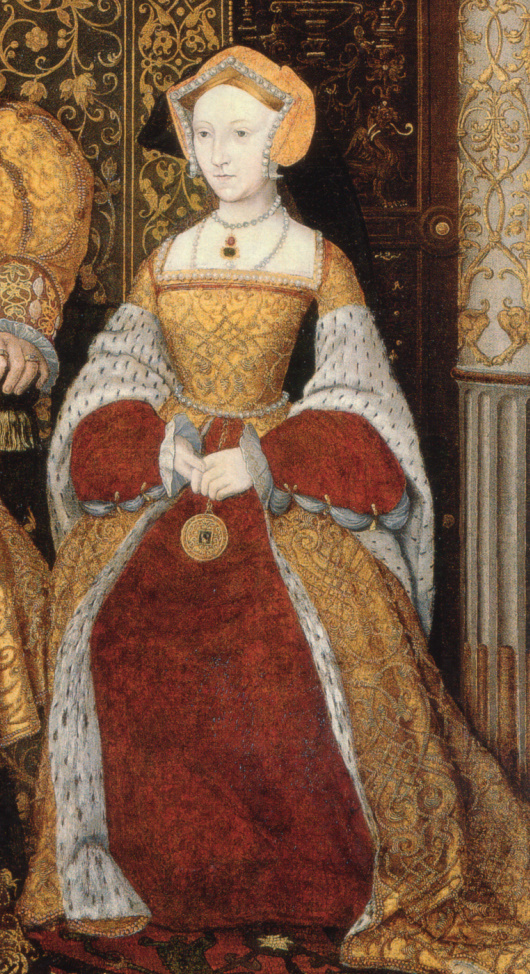 Posthumous depiction of Jane Seymour from Henry VIII's family painting.